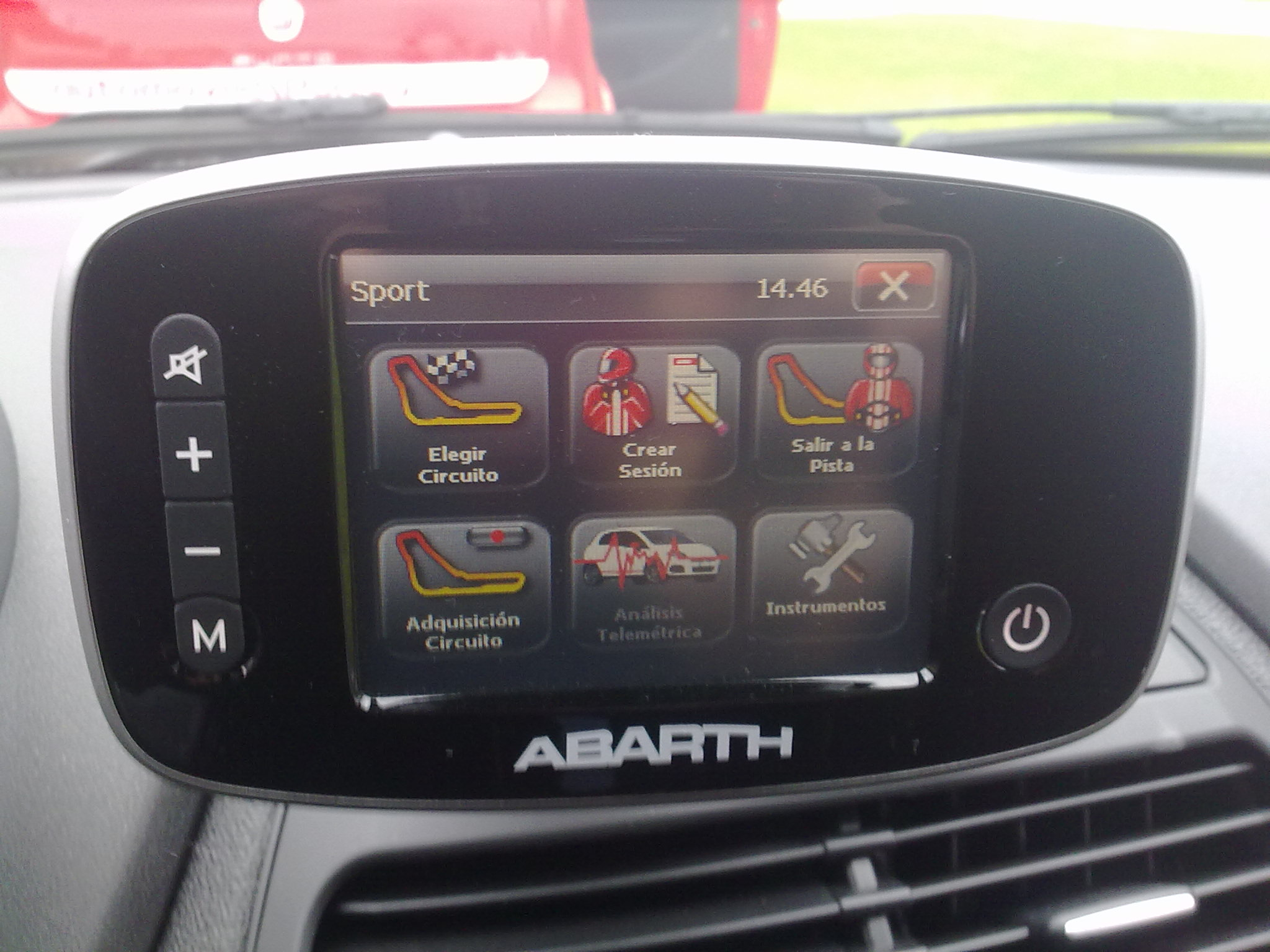 Blue&Me System